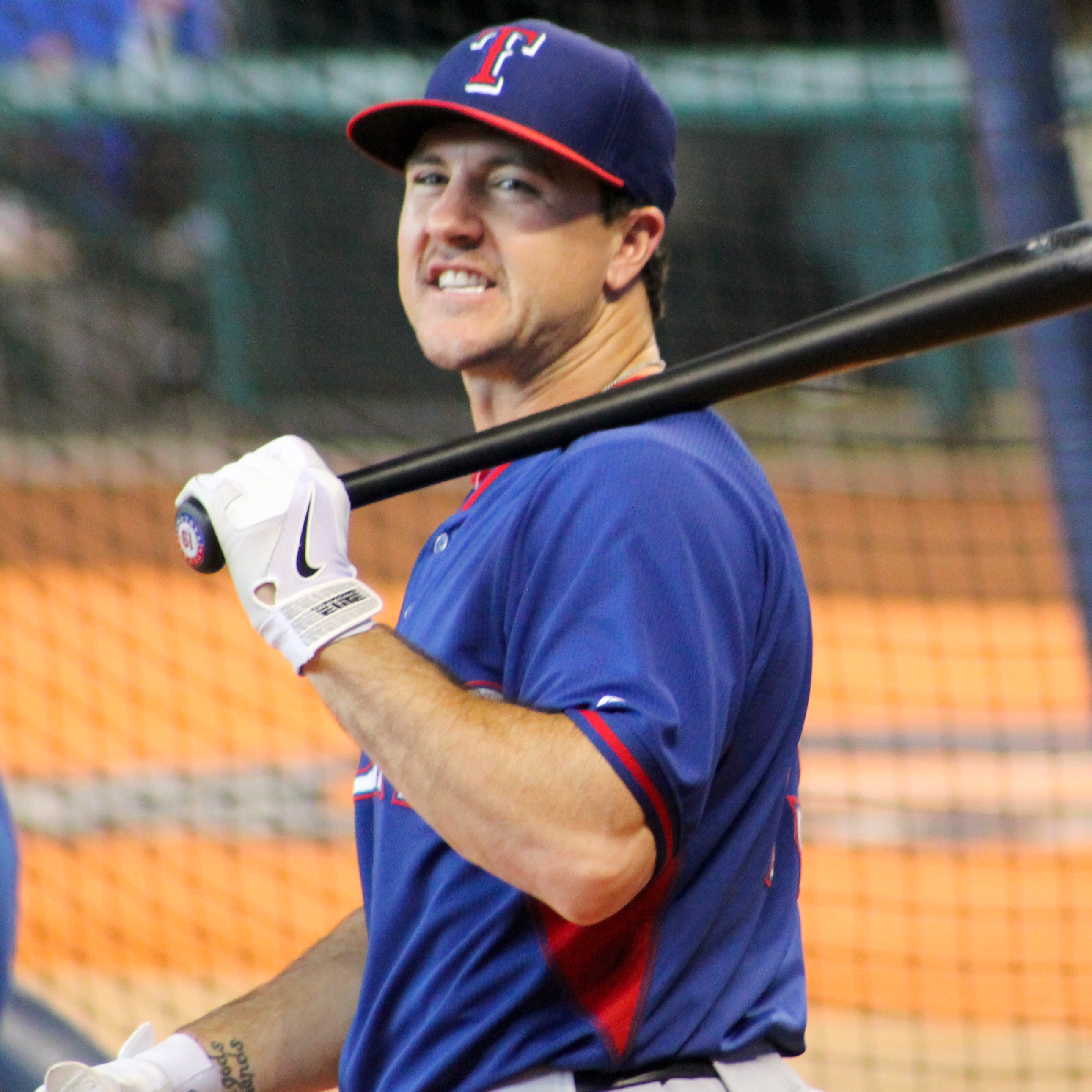 Professional baseball player Daniel Robertson at Minute Maid Park in 2014.